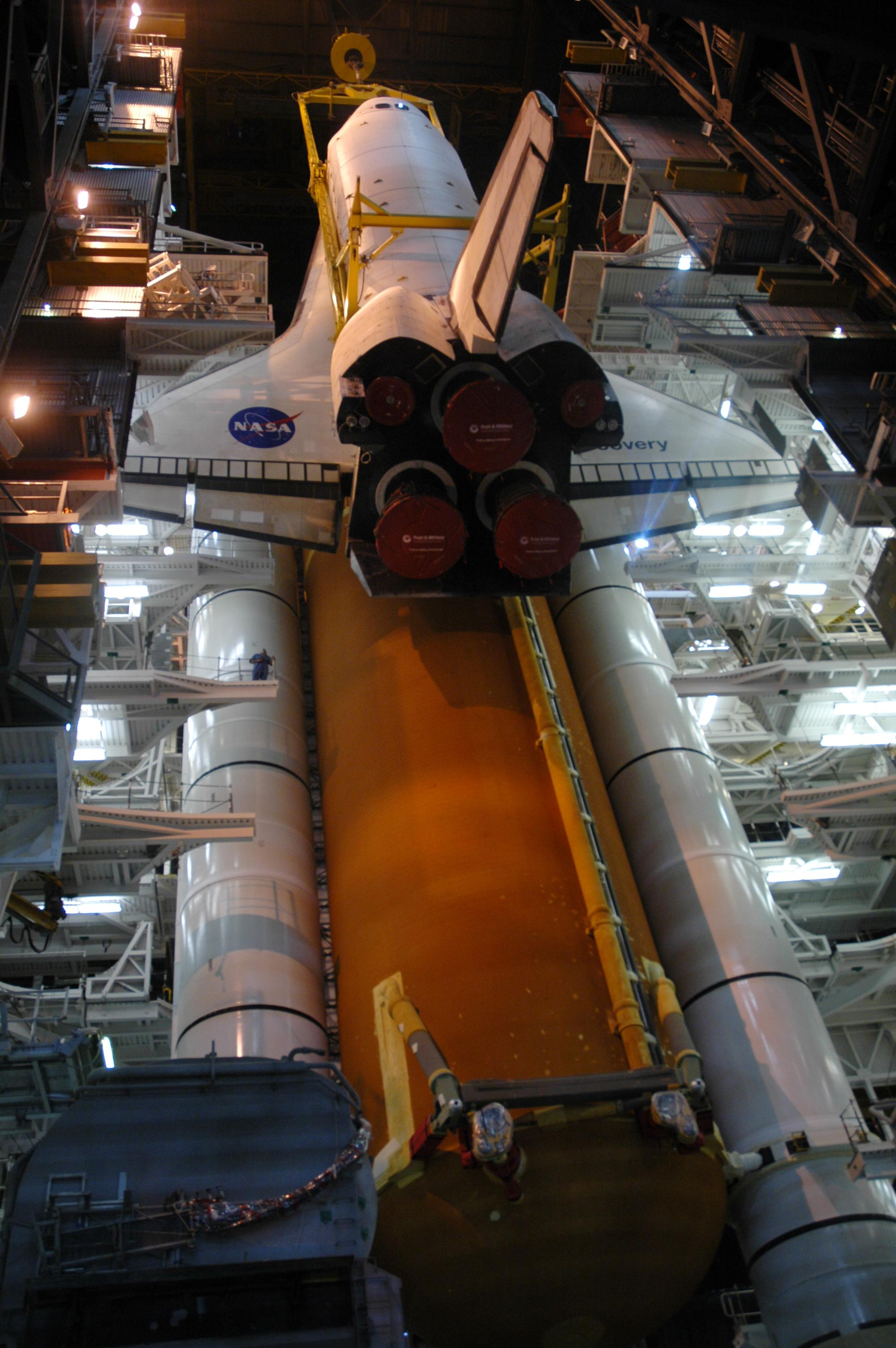 Inside the Vehicle Assembly Building, space shuttle Discovery is lowered next to the external tank and solid rocket boosters already installed on the mobile launcher platform.